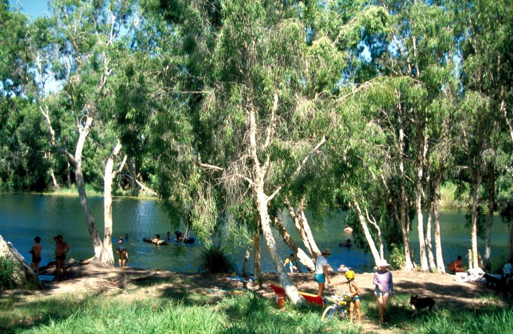 Swimming in Rollingstone Creek near Townsville, Queensland, 1986